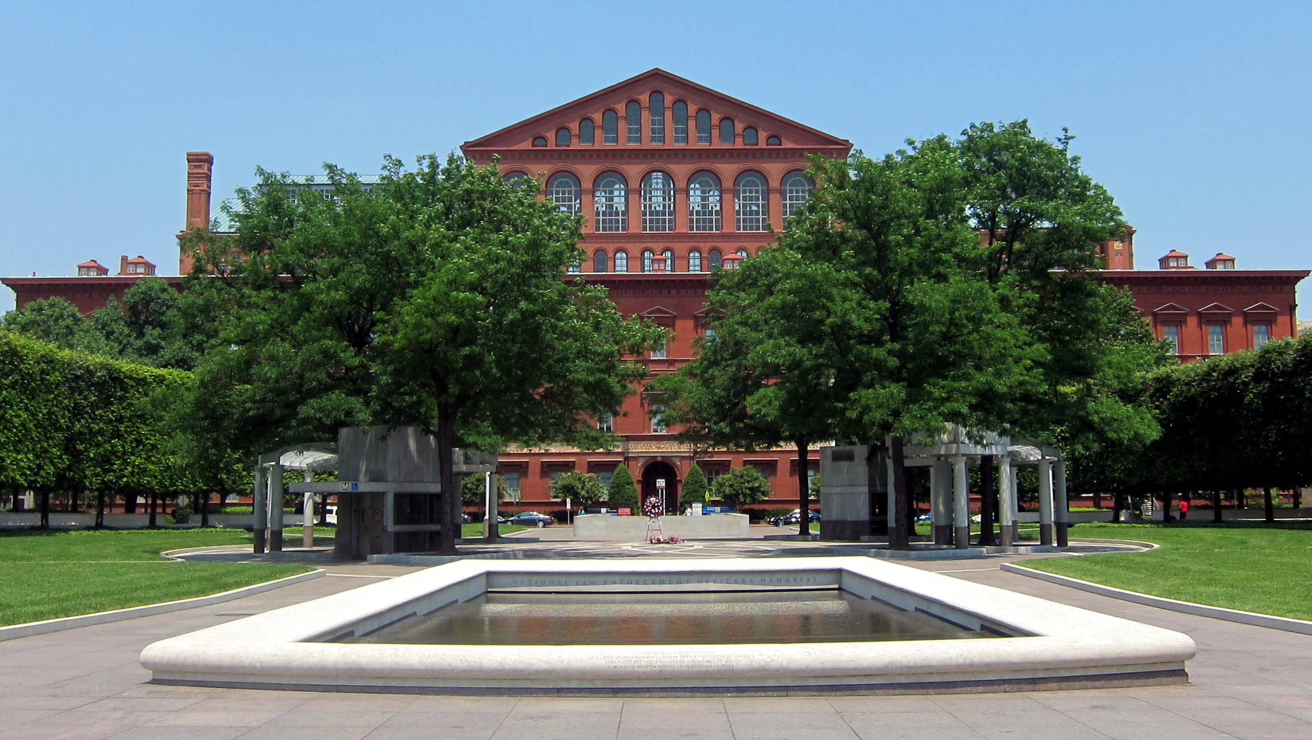 The National Law Enforcement Officers Memorial located at Judiciary Square in Washington, D.C. The National Building Museum is visible in the background.